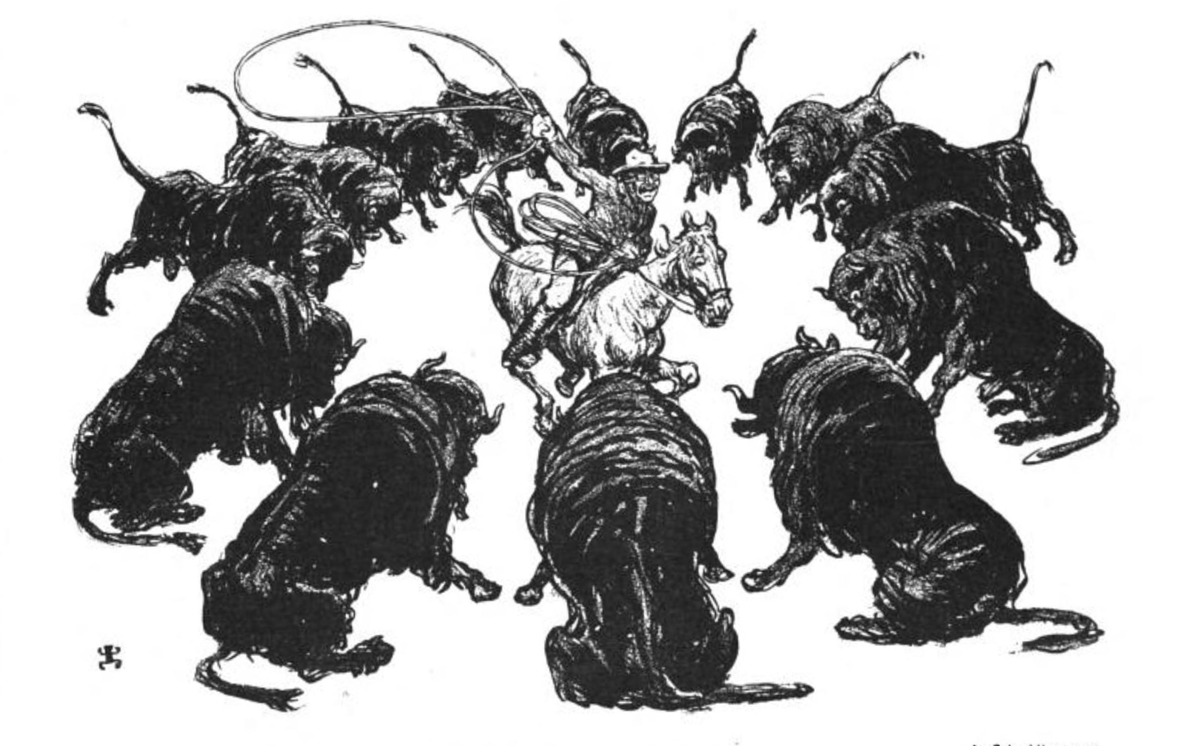 Roosevelt and the Trusts.